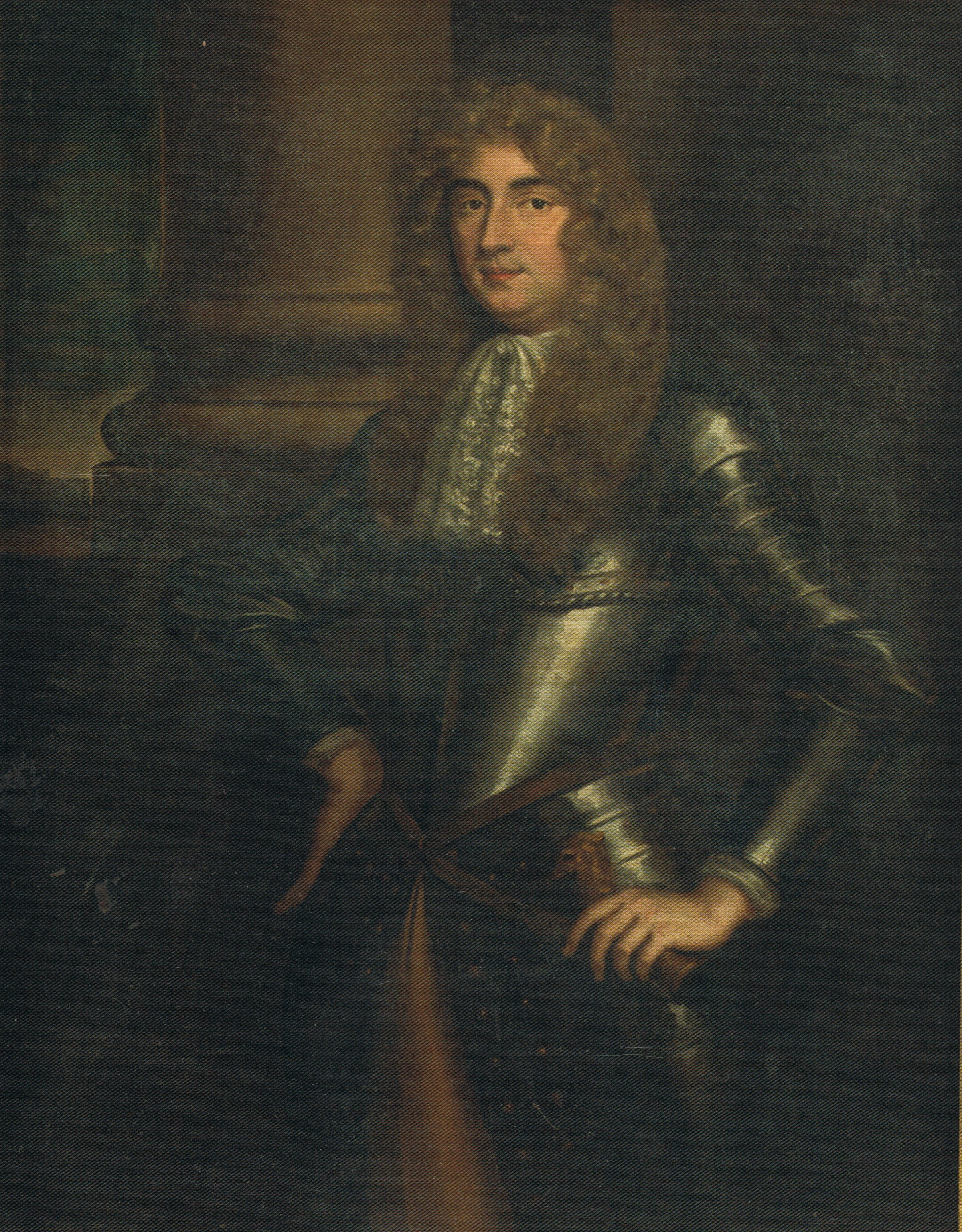 Charles Dormer (1632-1697), 2nd Earl of Carnarvon, 3rd Baron Dormer, 50 x 40 inches. Sold at Bearnes, Hampton & Littlewood, Exeter, UK, 8th July, 2014, lot 273.